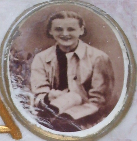 Grażyna Kierszniewska 16-year-old student, girl scout, murdered by the Germans in the Zamosc Rotunda during World War Two.